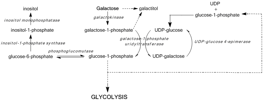 Diagram of galactose metabolic pathways